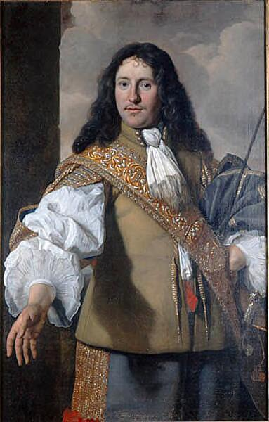 This image is available from the Netherlands Institute for Art Historyunder digital ID 229134. This tag does not indicate the copyright status of the attached work. A normal copyright tag is still required. See Commons:Licensing.